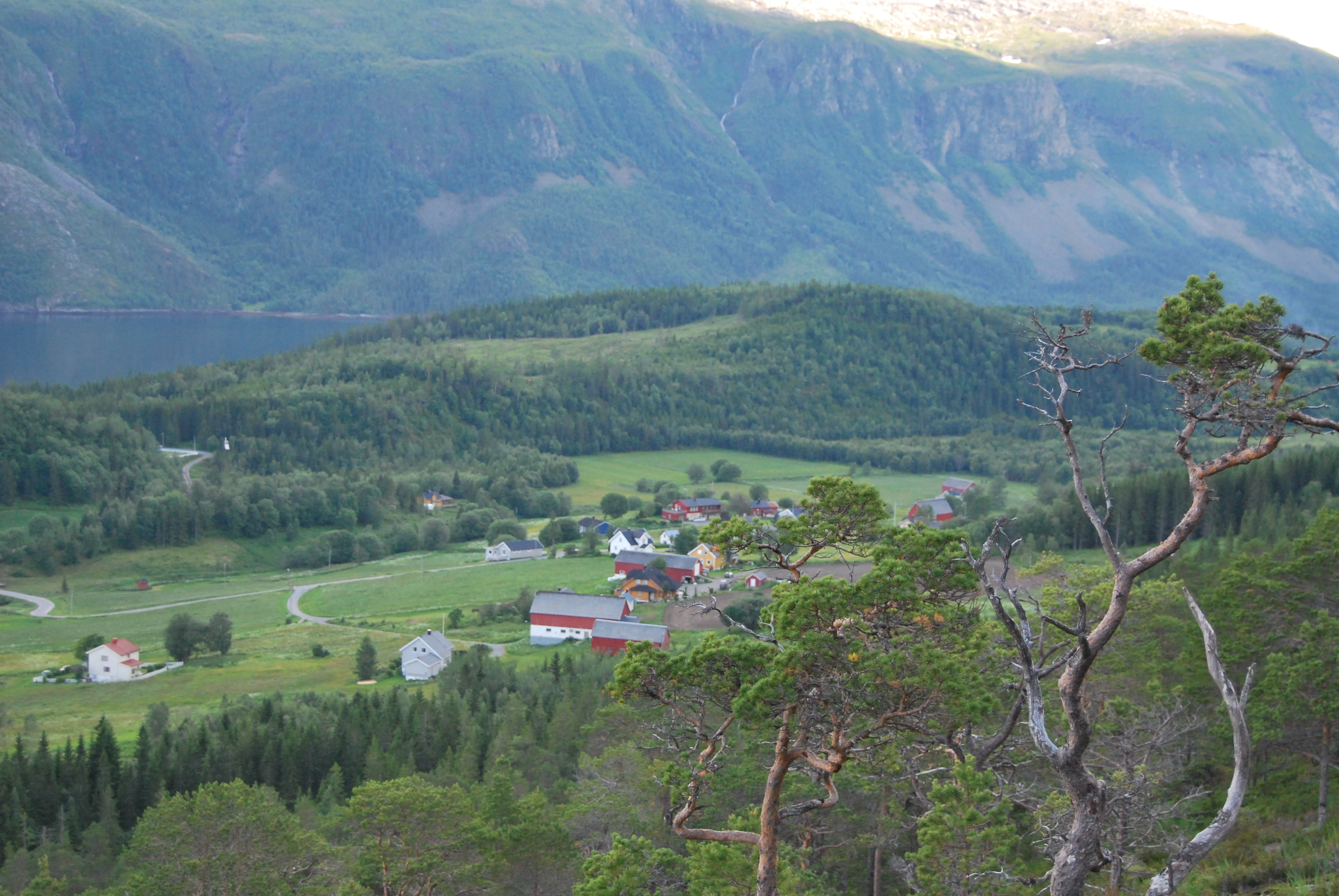 Bindalseidet, Nordland, Norway (2013)